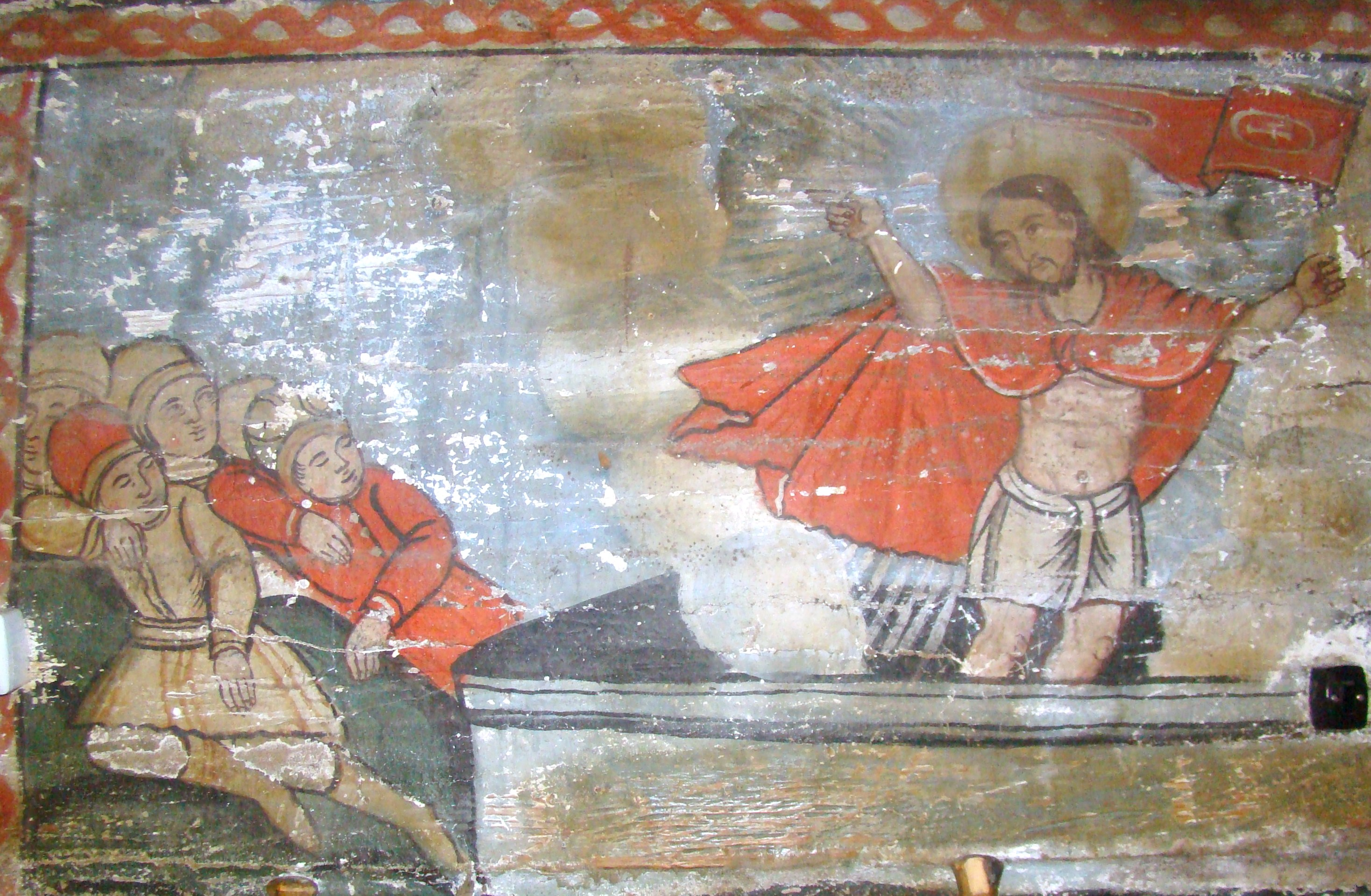 Wooden church in Săcalu de Pădure, Mureș countyRomână: Biserica de lemn din Săcalu de Pădure, județul Mureș